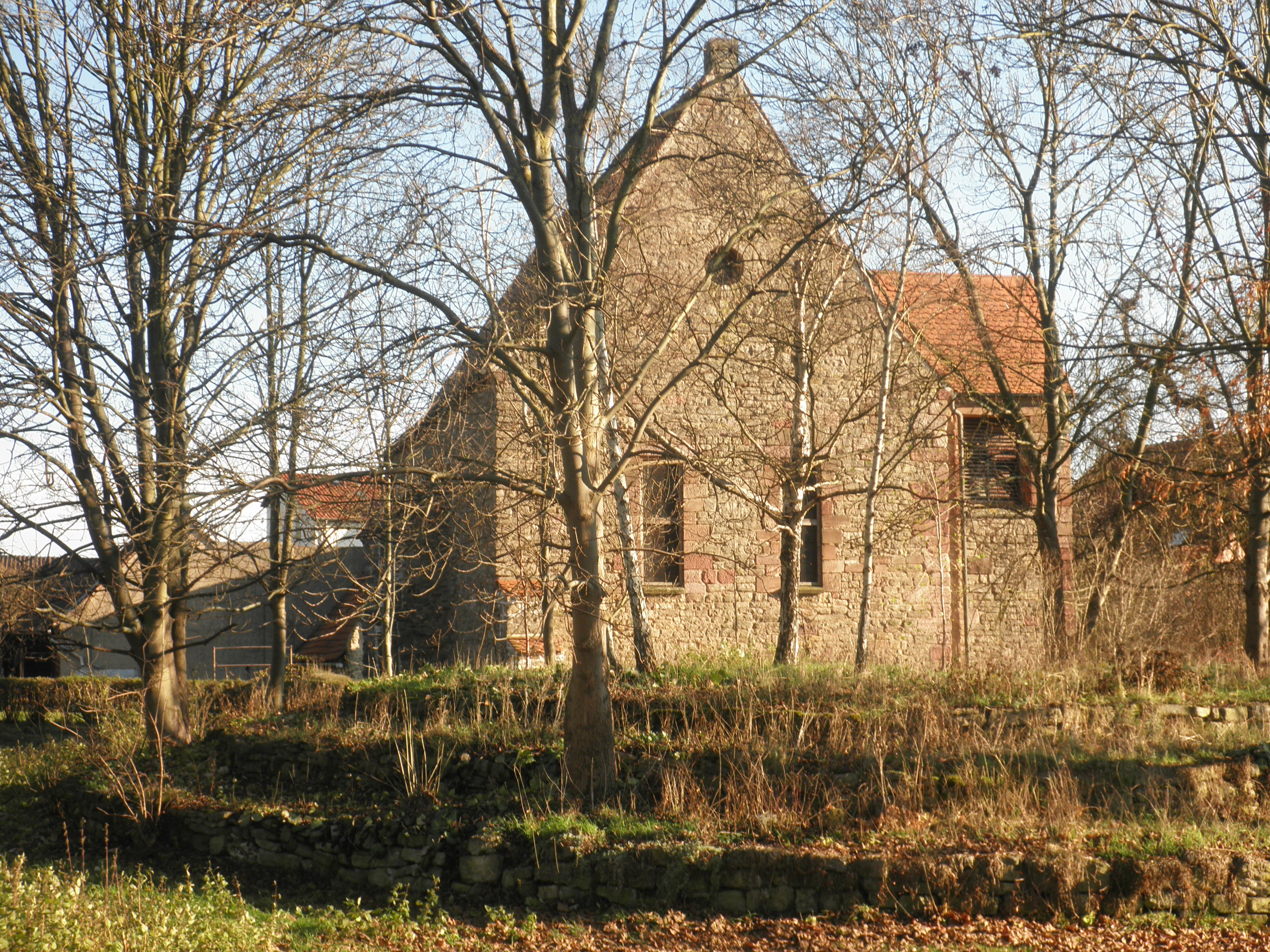 Wallhausen (Helme) Church in 2017